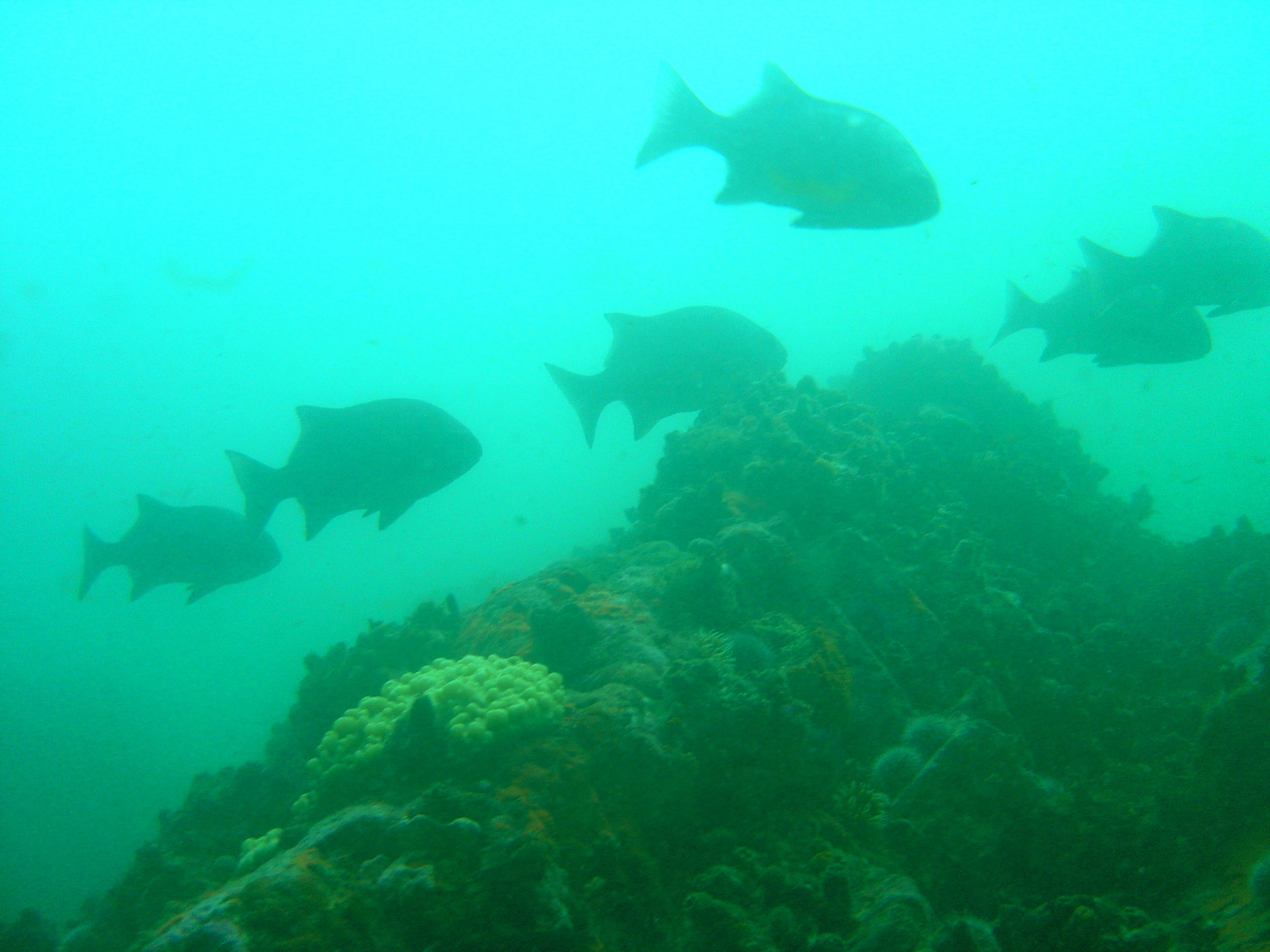 Gordon's Bay, Western Cape.